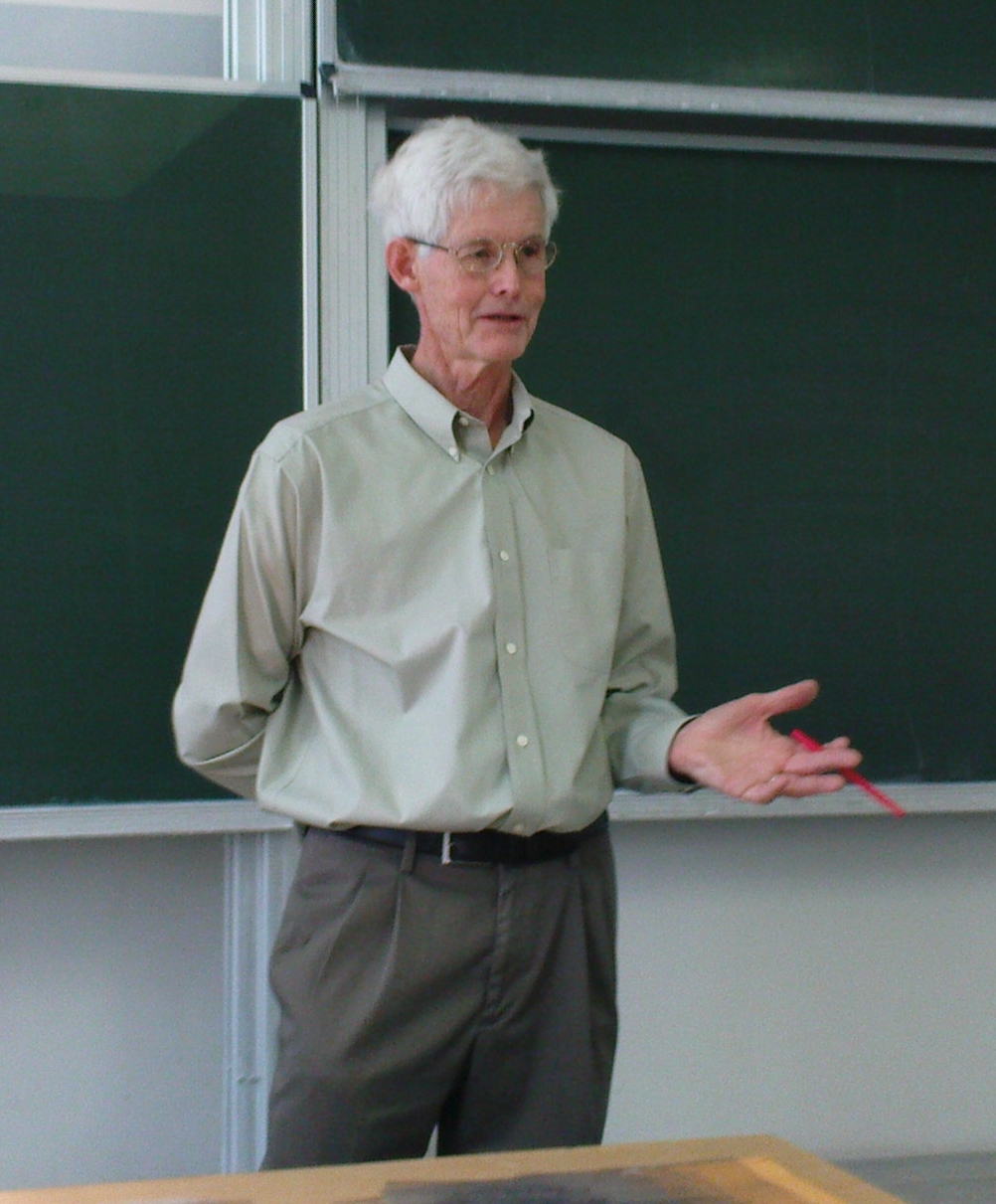 Professor Cook at the Fall school of LOGIC & COMPLEXITY in Prague, September 24, 2008